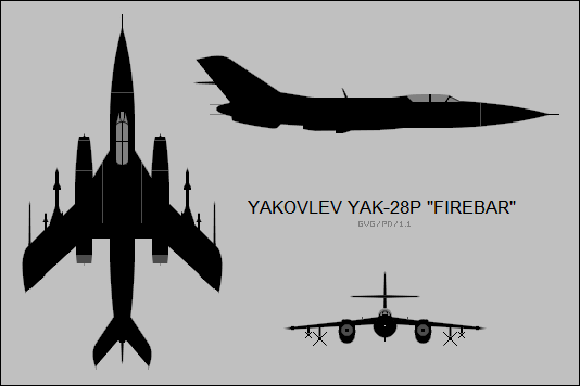 3-view silhouettes of the Yakovlev Yak-28P